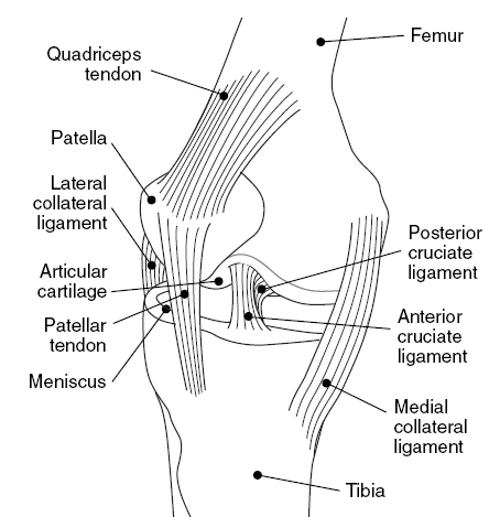 Medial view of the knee showing anatomical features.